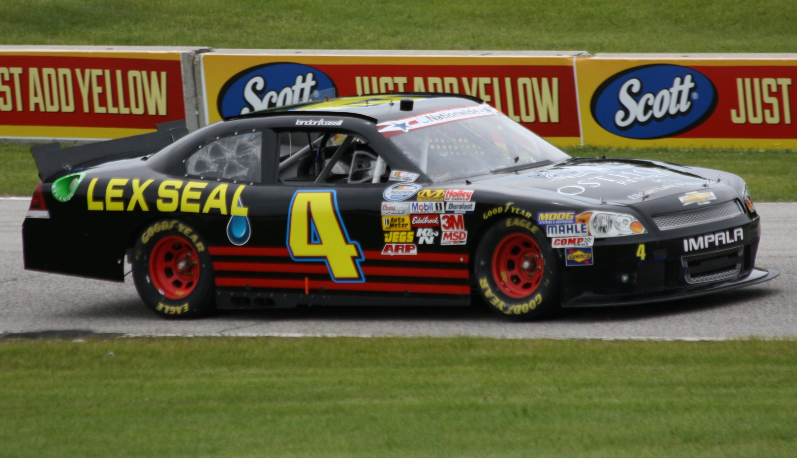 The NASCAR Nationwide car of Landon Cassill during the w:2013 Johnsonville Sausage 200 at Road America.